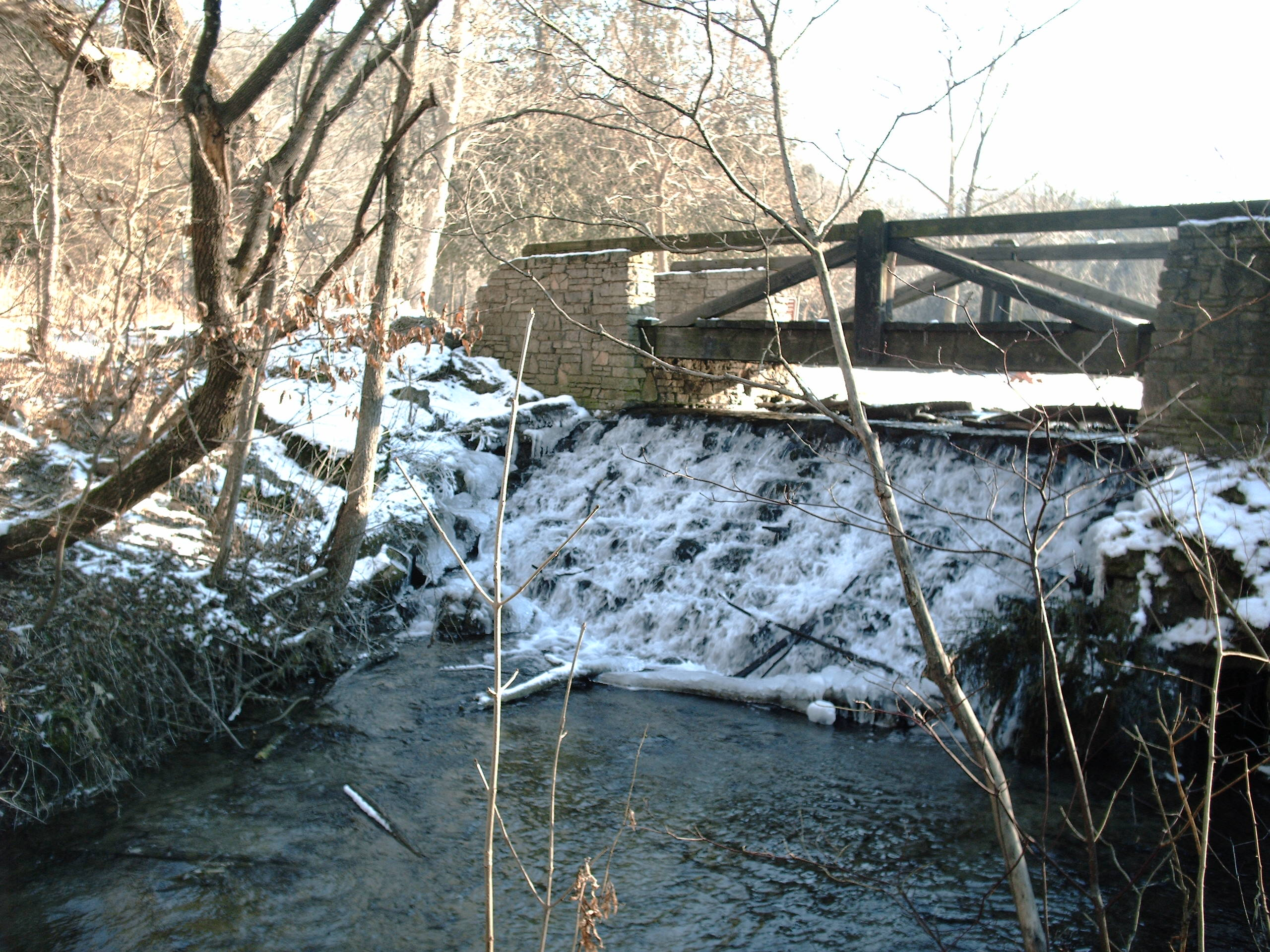 Photo I took in 2006-01 of Whitewater River bridge in Whitewater State Park, Minnesota. CC & GFDL.